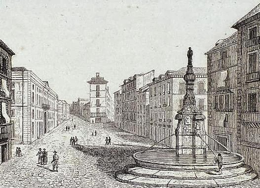 Former Fountain of La Mariblanca, was located in the Puerta del Sol, in Madrid.